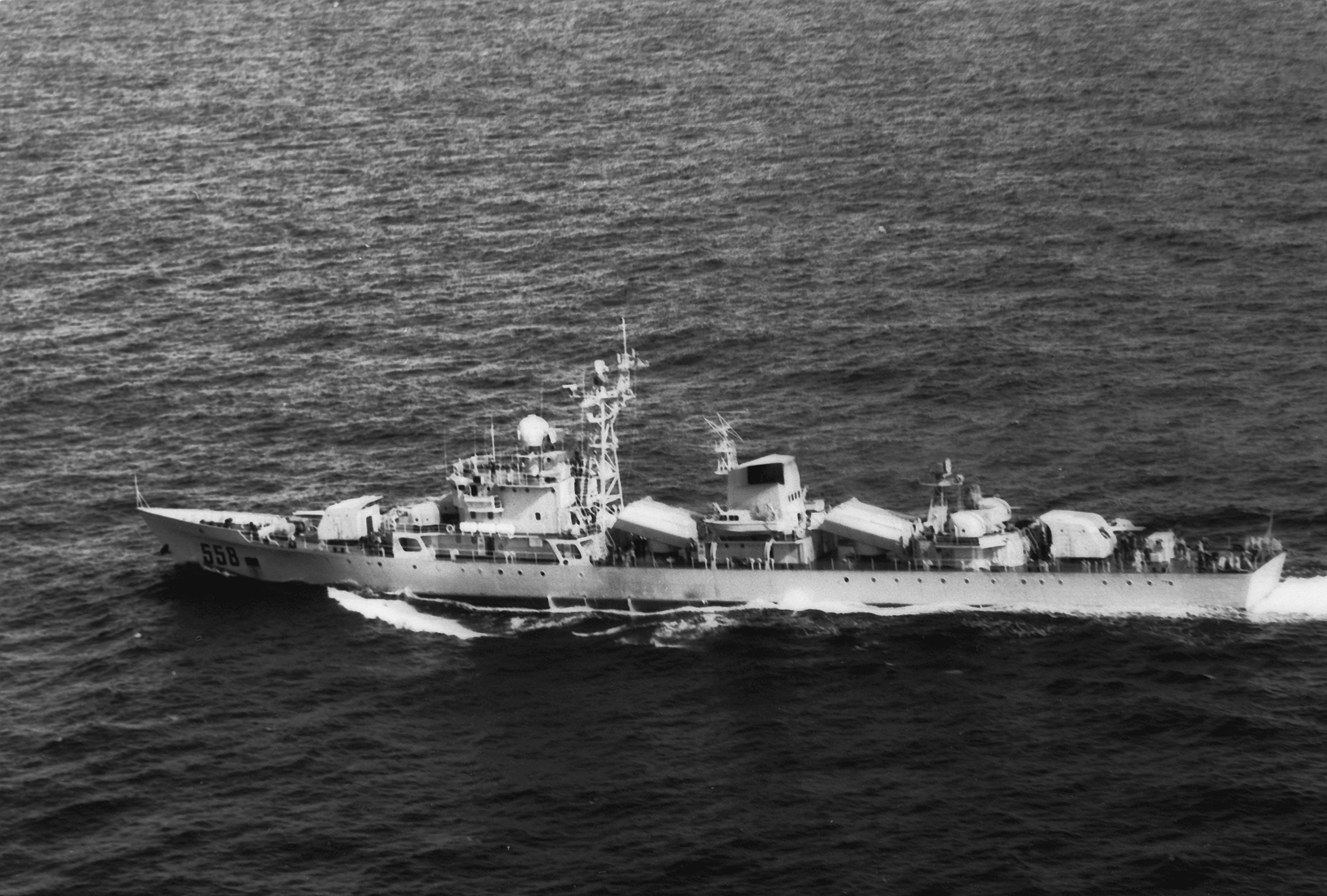 Aerial port side view of the Chinese Peoples Republic Army/Navy Jianghu series frigate Zigong (F-558) underway..